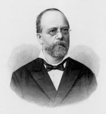 German composer, organist and educator Friedrich Lux (1820-1895).